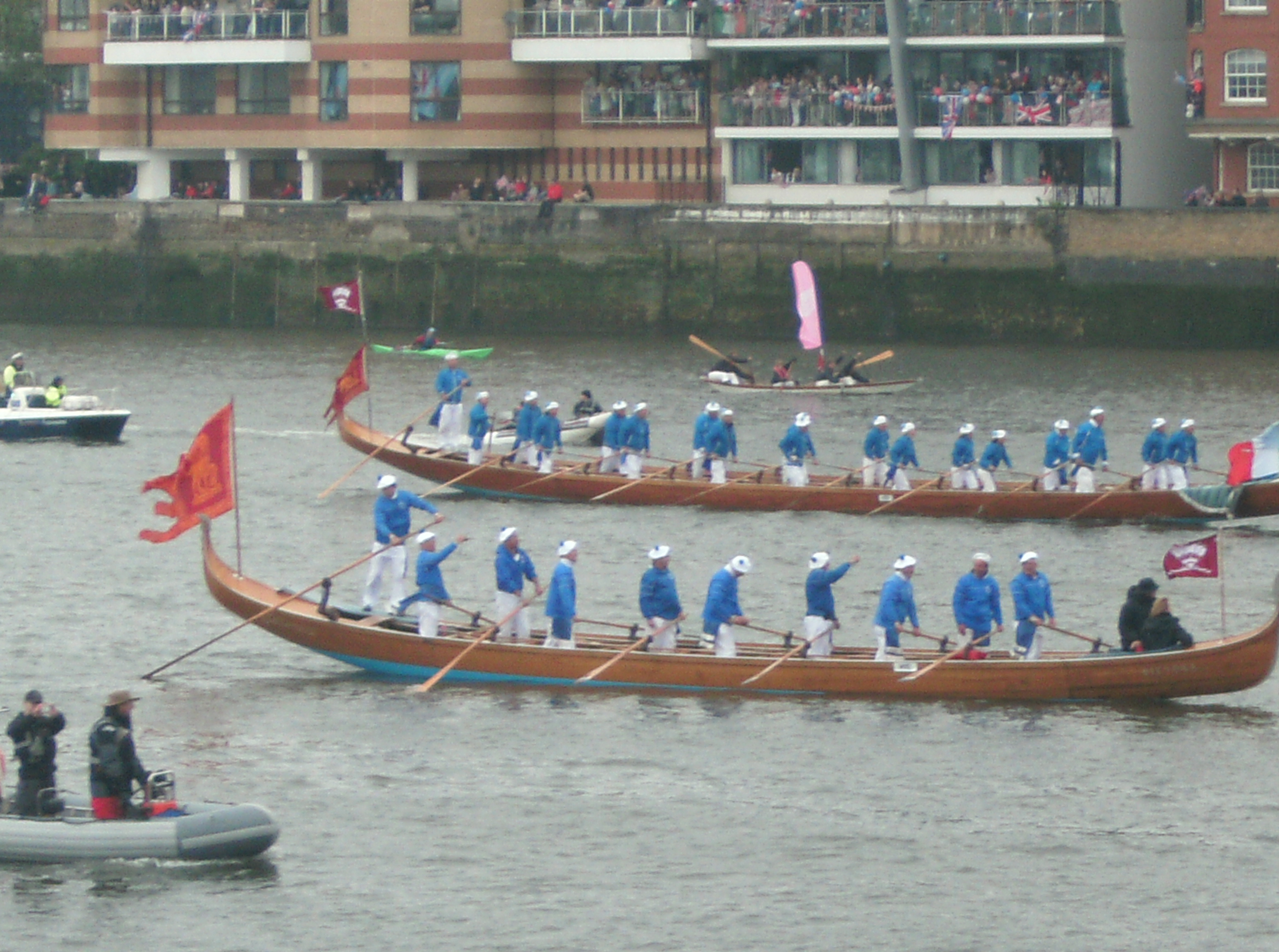 Man powered boats, the first wave of boats in the Thames Diamond Jubilee Pageant in honour of Queen Elizabeth II.